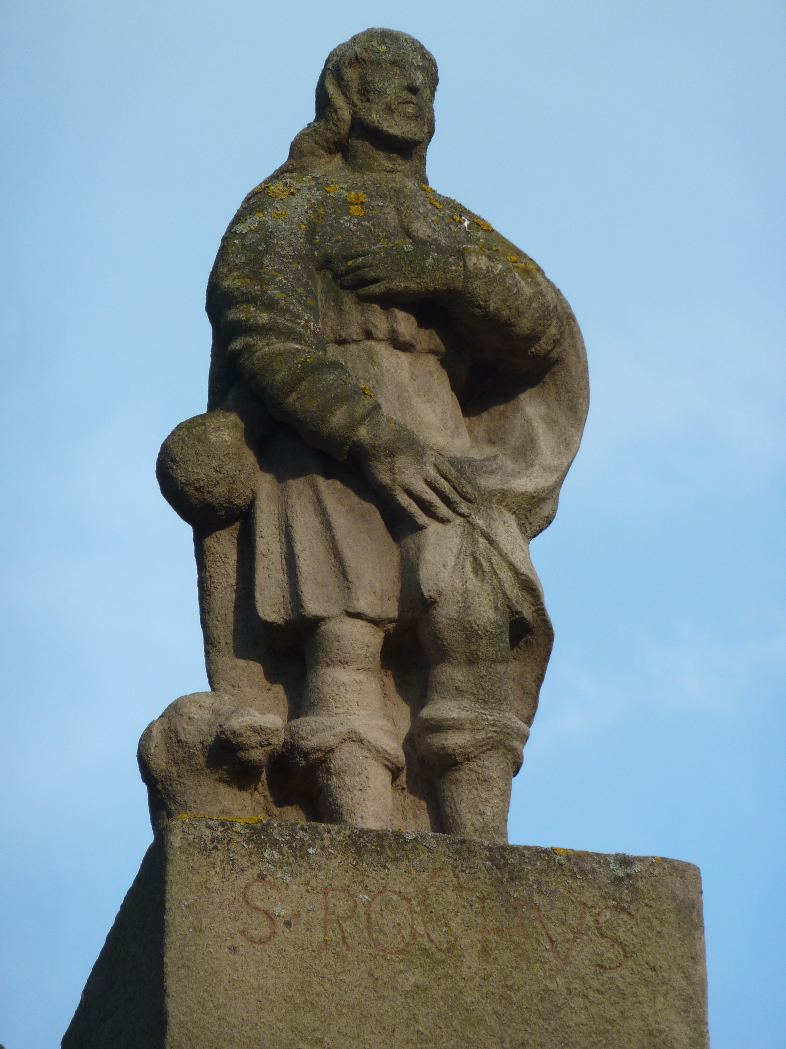 Uherské Hradiště, Czech Republic. Park Smetanovy sady, column with a statue of St. Roch from the late 17th century. Close-up of the statue.